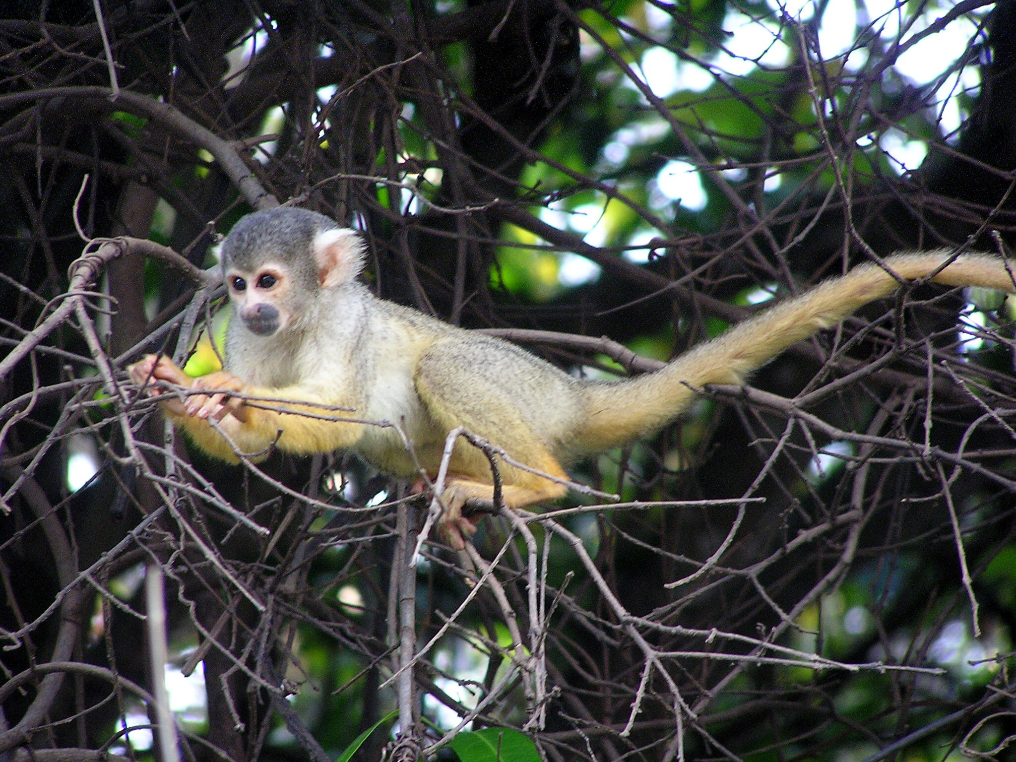 Squirrel monkey, Rio Beni, Bolivia.